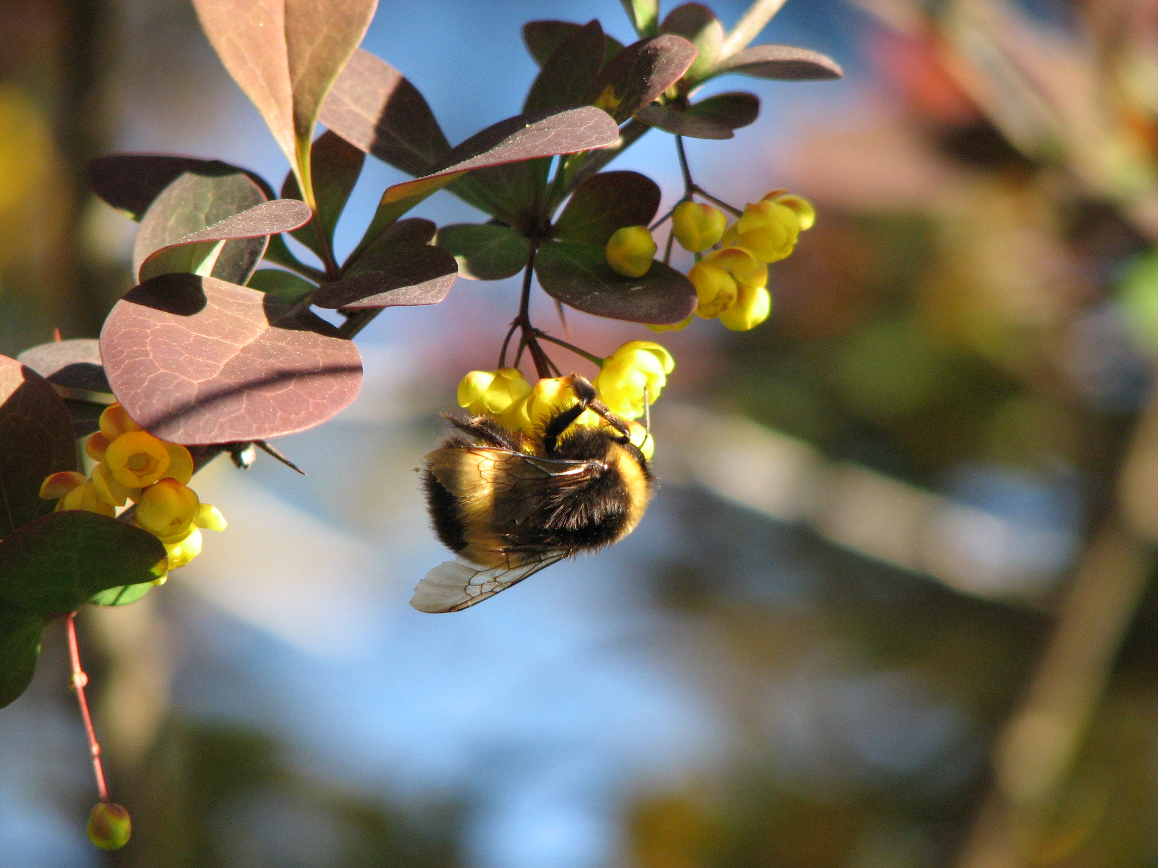 Bombus lucorum en gathering sustenance in Turku, Finland